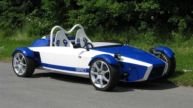 Front three-quarter view of blue and white MEV Sonic7 Sports Car